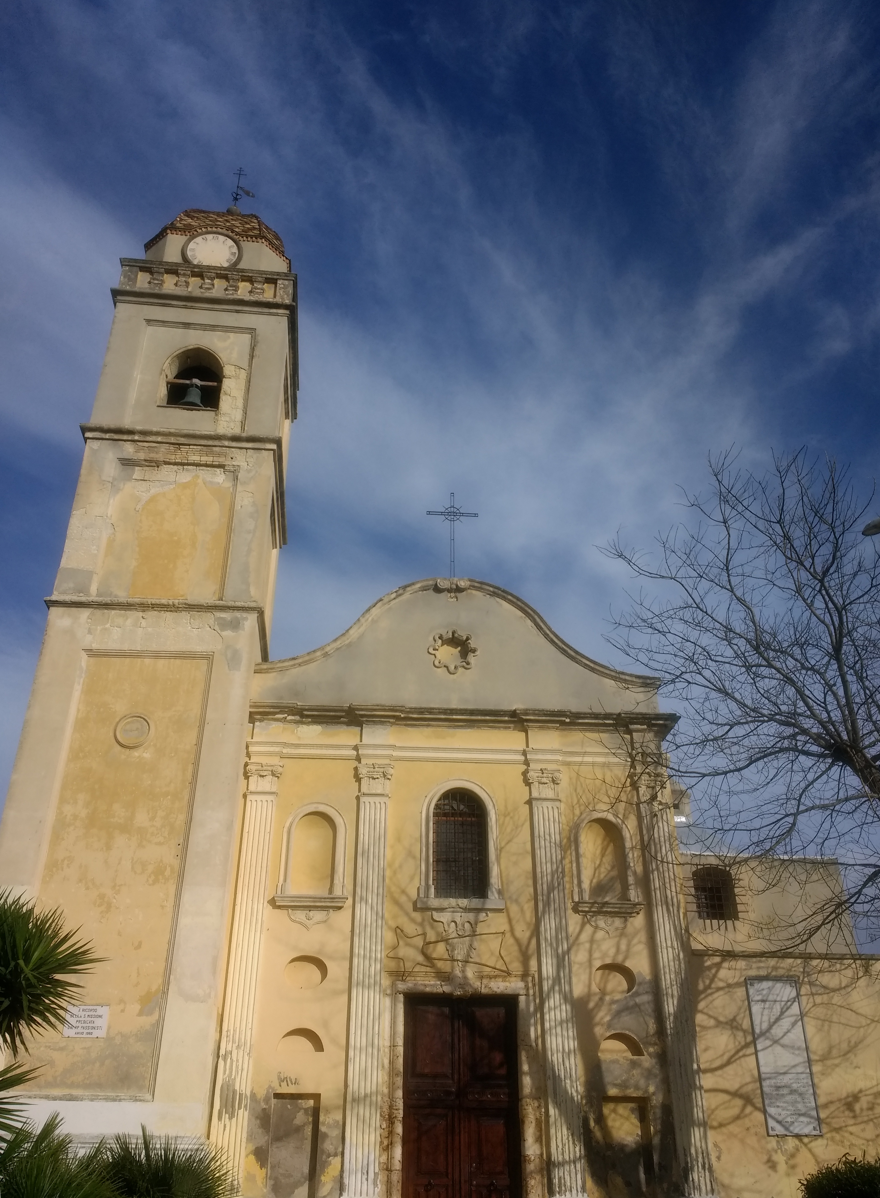 St.Peter's Church in Pirri (Cagliari, Sardinia, IT)